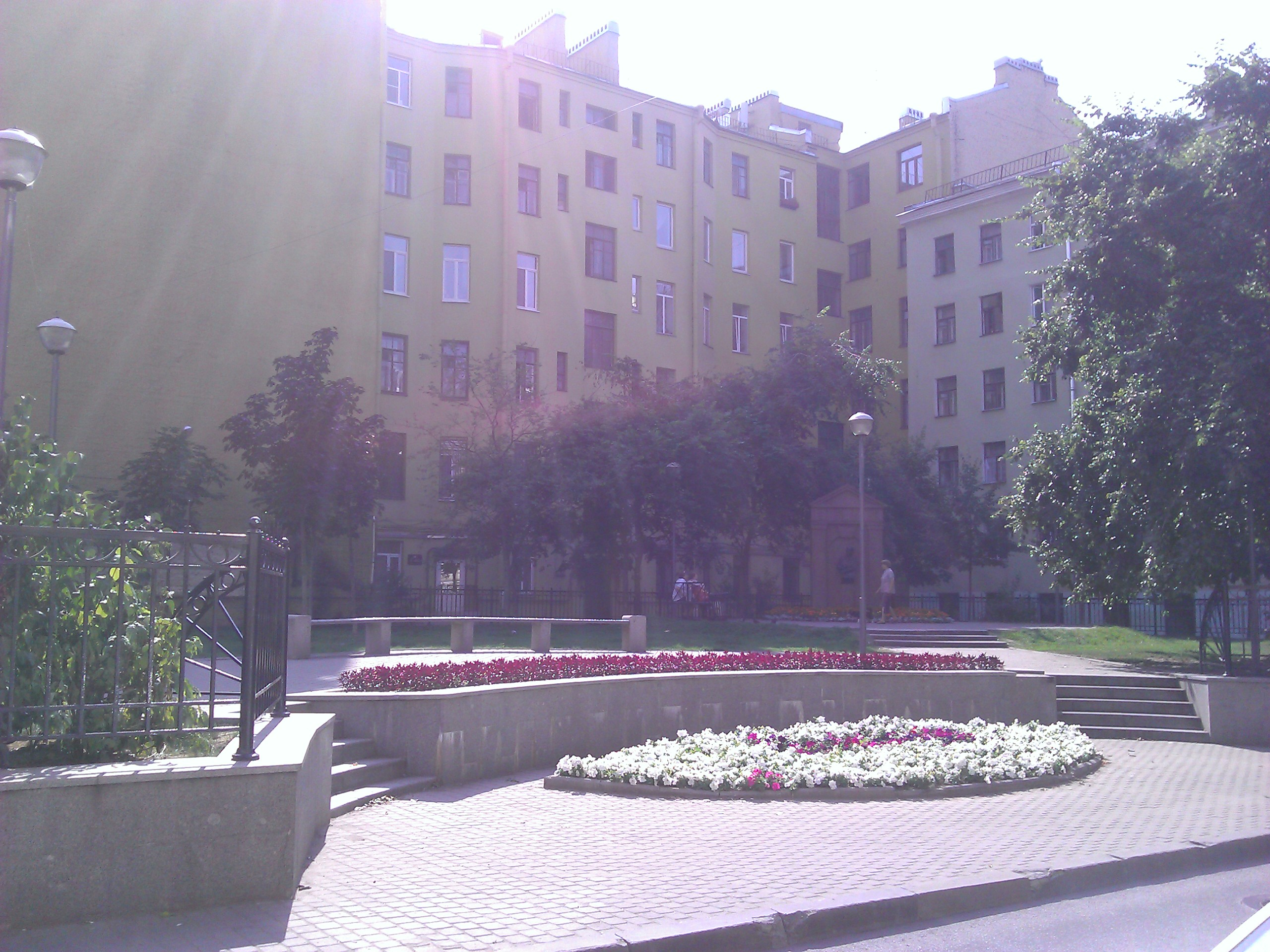 Manevich square in Saint Petersburg, Russia.